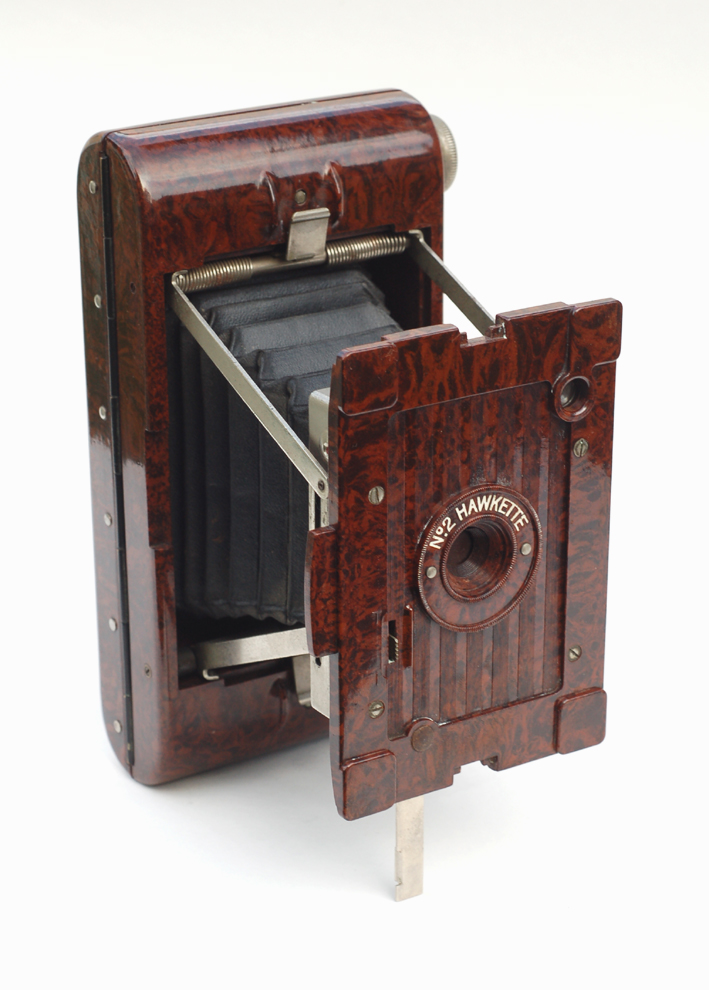 The lovely Hawkette is a folding camera made in England in the 1930s, with a body of marbled bakelite. This camera was used as a premium, and not produced for retail sales.